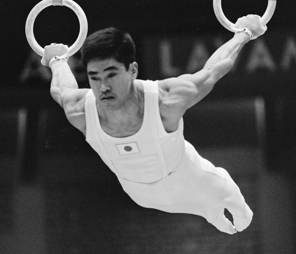 Yukio Endo at the 1966 World Championships